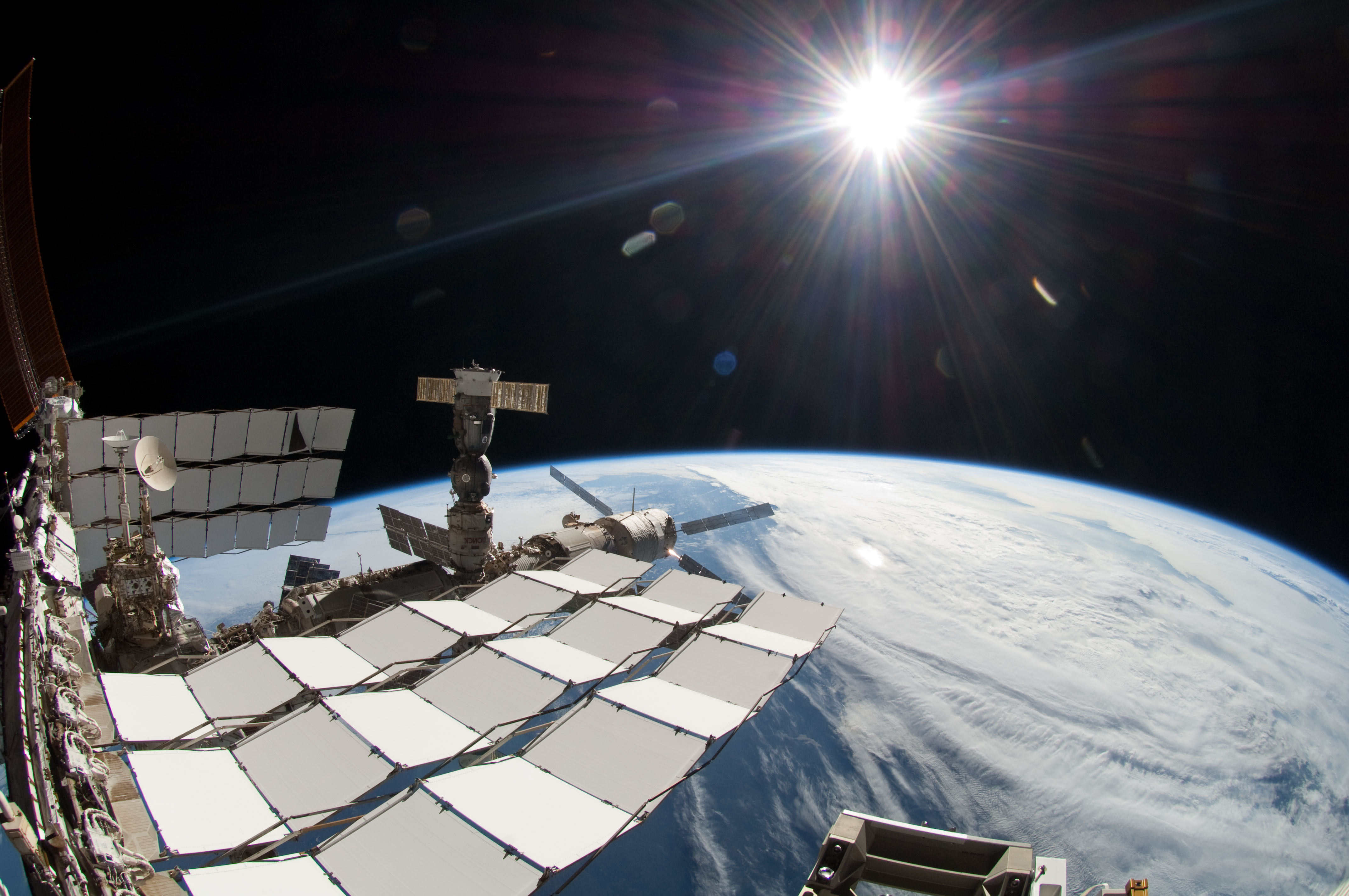 A bright sun, a portion of the International Space Station and Earth's horizon are featured in this image photographed during the STS-134 mission's fourth session of extravehicular activity (EVA). A 10.5 mm wide-angle lens was used with a Nikon D2Xs digital SLR camera. The photograph was taken by a spacewalker on the top of the ELC-3. The Soyuz spacecraft from the TMA-21 mission can be seen docked to the Poisk Module near the center of the image.